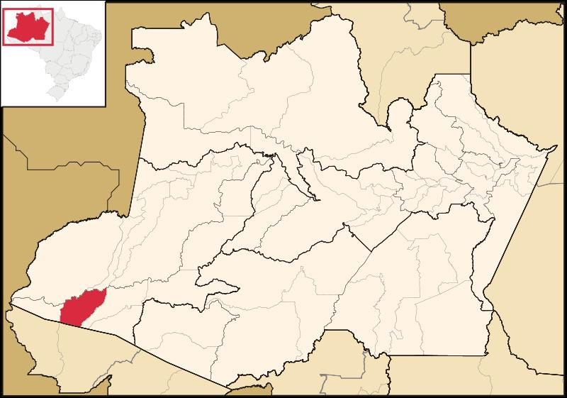 Map of Ipixuna city localiztion.